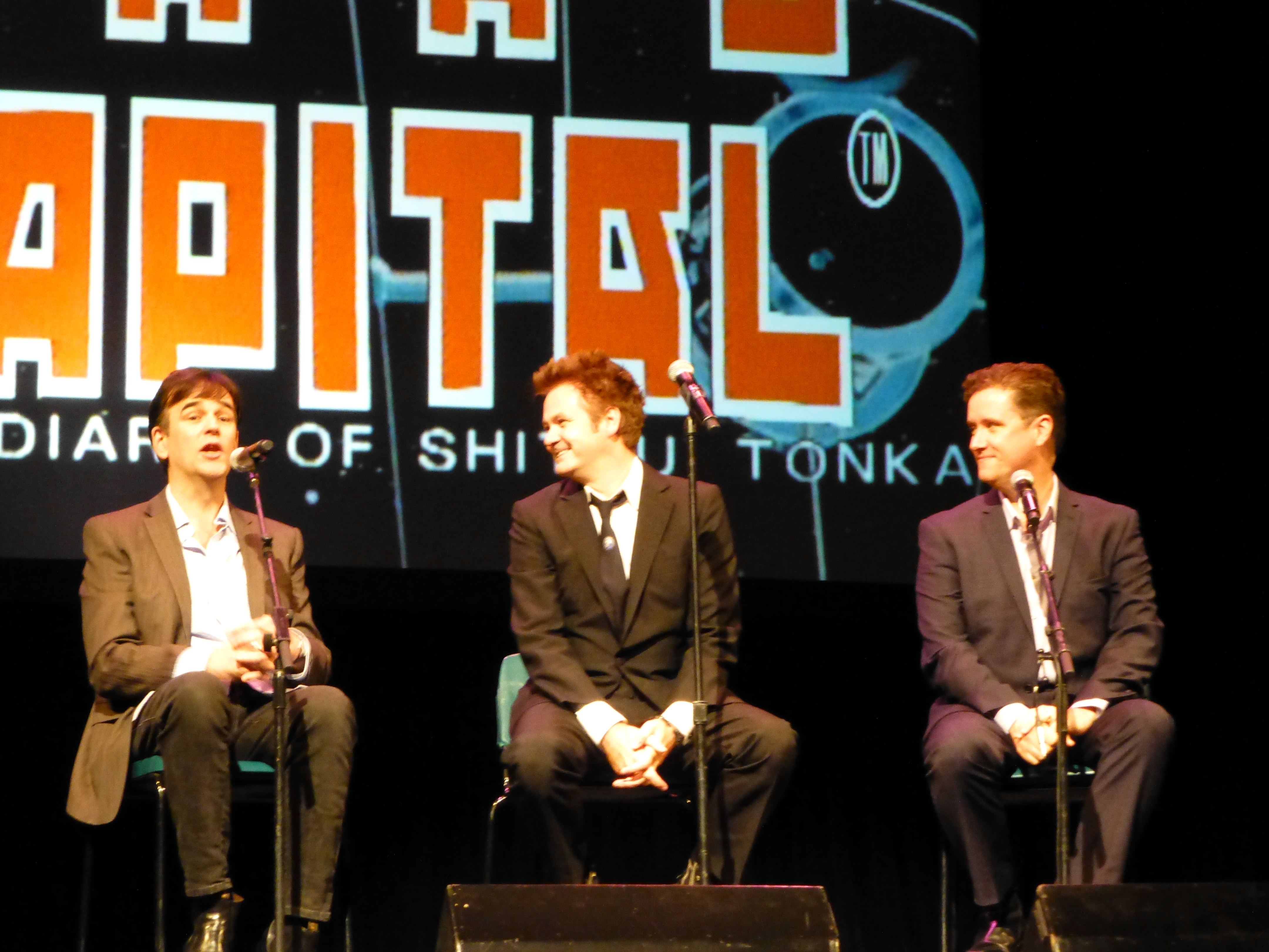 The Doug Anthony All Stars reunited for a one-off show to launch the DVD release of the DAAS Kapital TV series. Left to right: Tim Ferguson, Paul McDermott, Richard Fidler.